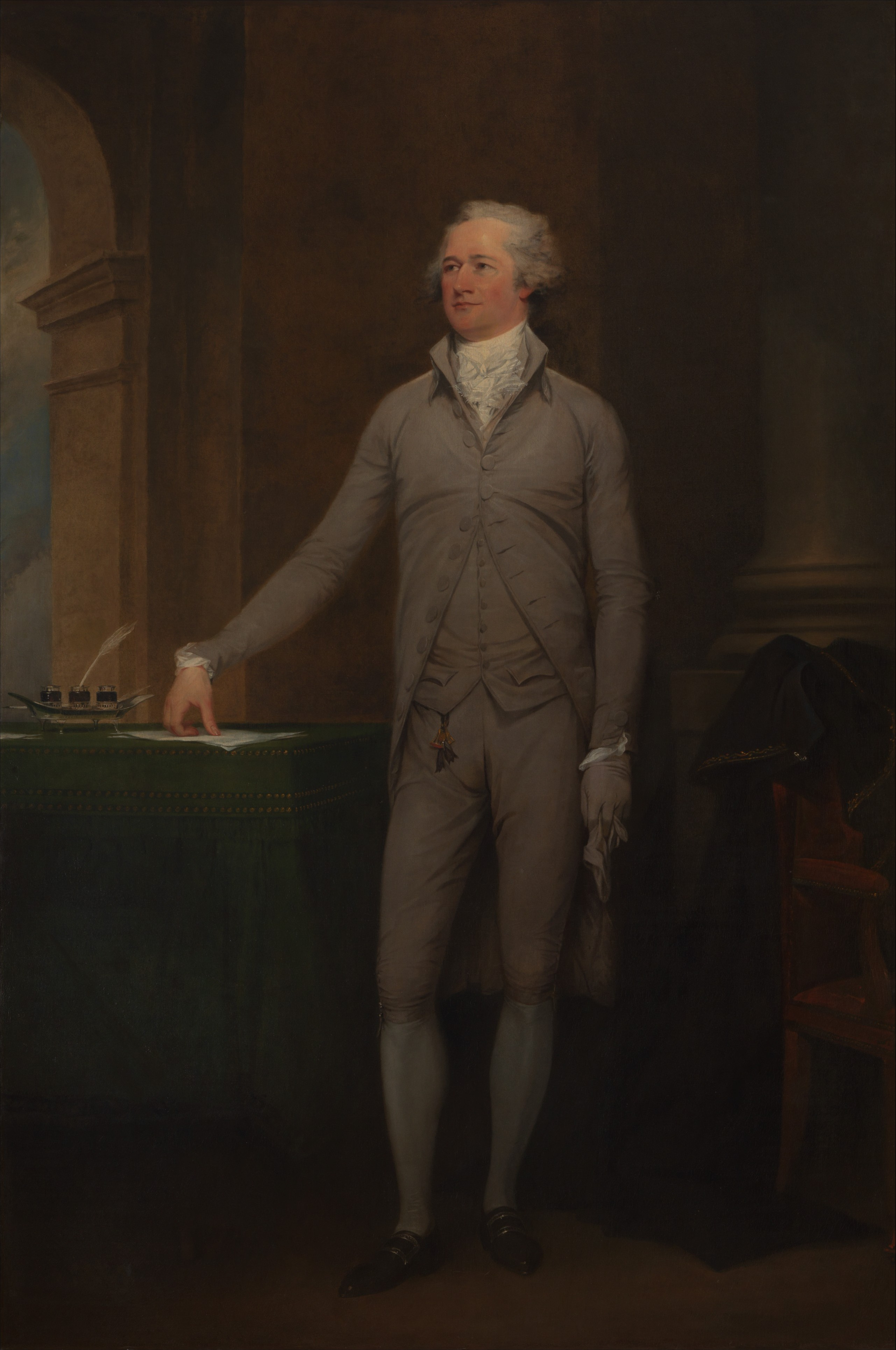 Full-length portrait of Alexander Hamilton by John Trumbull, oil on canvas, 1792. Donated by Credit Suisse to both the Met and the Crystal Bridges Museum of American Art in 2013, which will take turns displaying it (see NYT article, 14. March 2014)